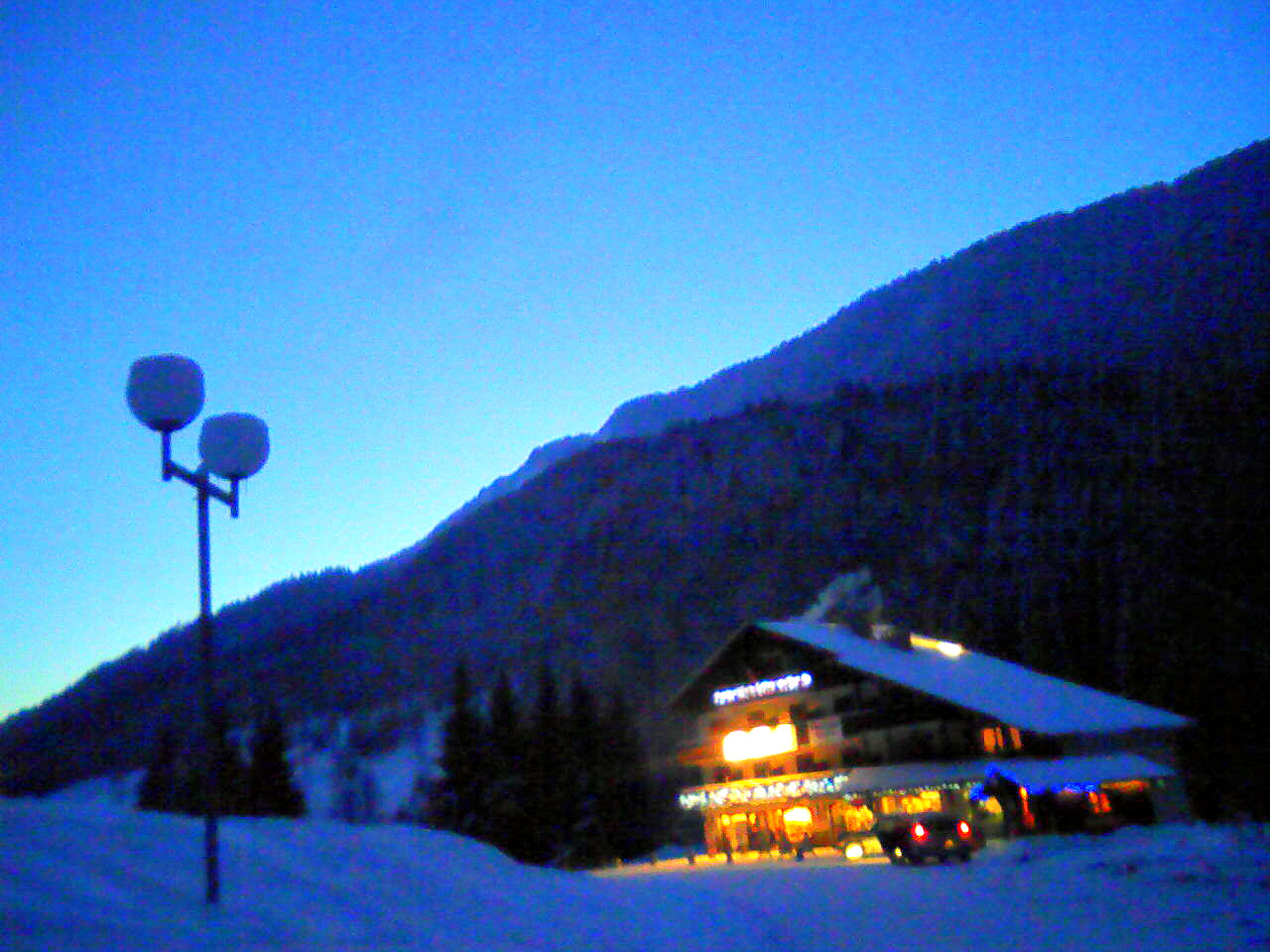 Ski station les Aillons, France